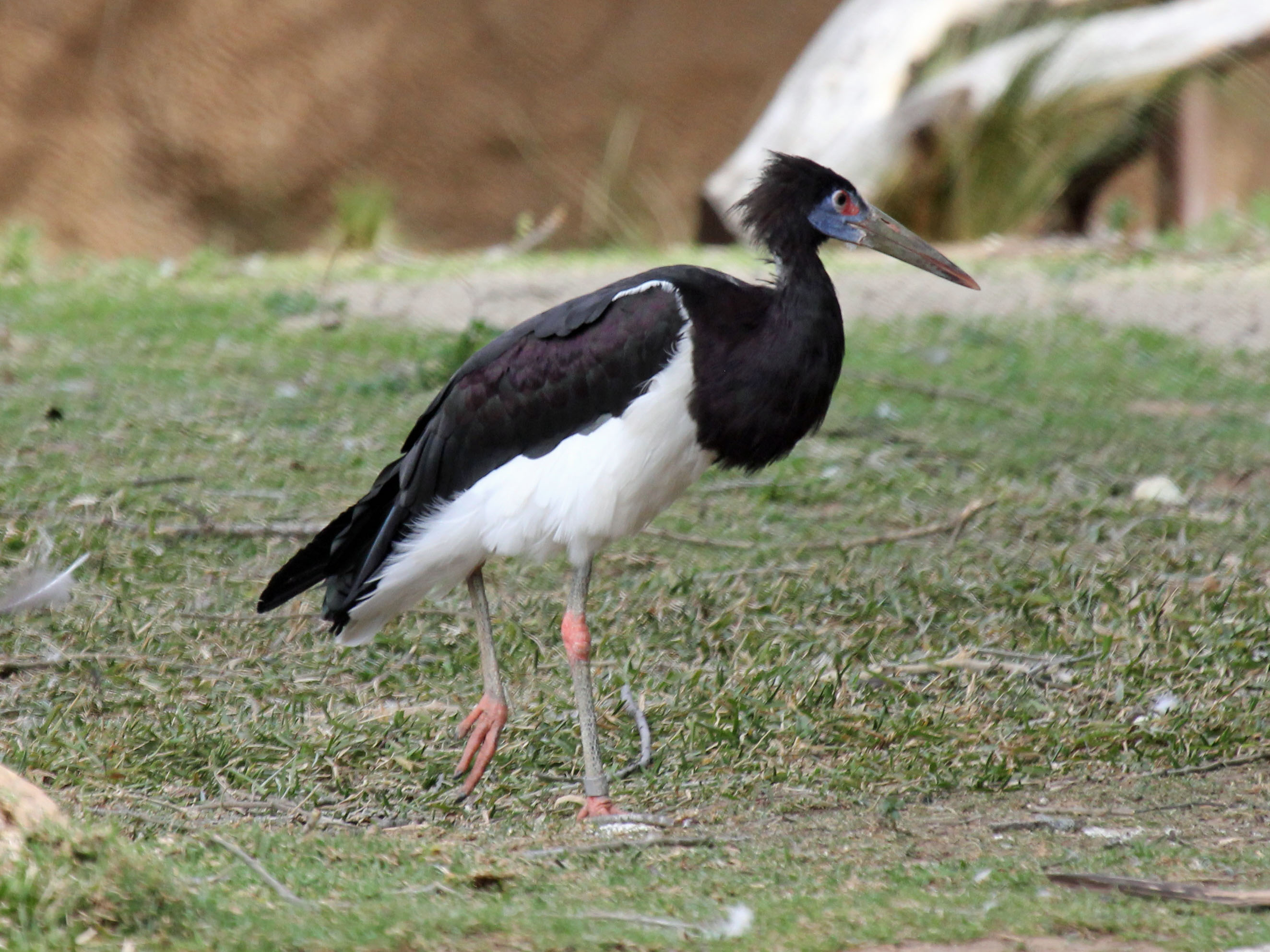 Abdim's Stock (Ciconia abdimii) - San Diego Zoo